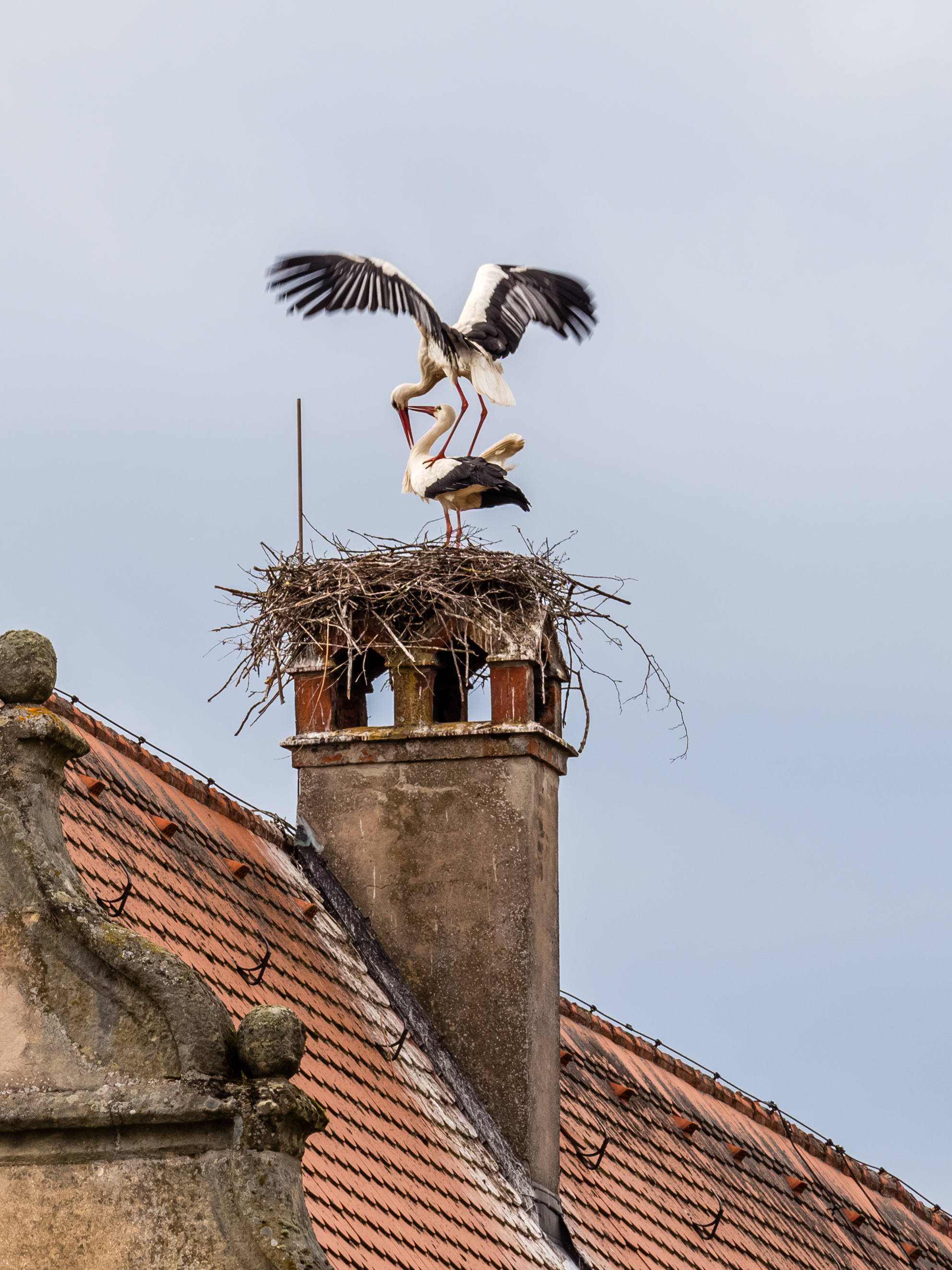 Stork couple in the nest on the chimney of the monastery building in Schlüsselau